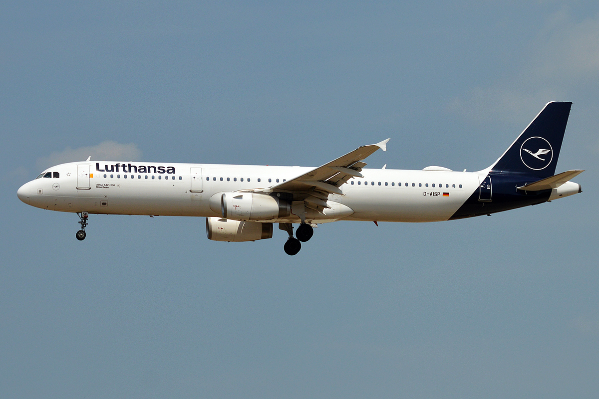 Lufthansa, D-AISP, Airbus A321-231